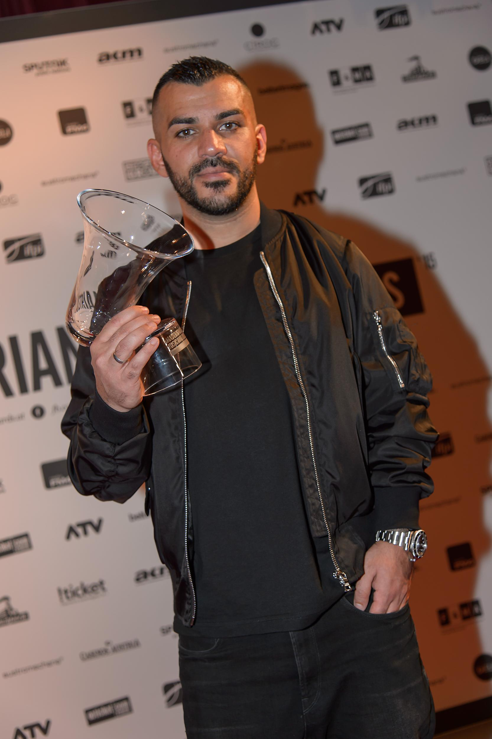 Amadeus Music Awards 2015,Volkstheater, Wien, 29.3.2015,NAZAR